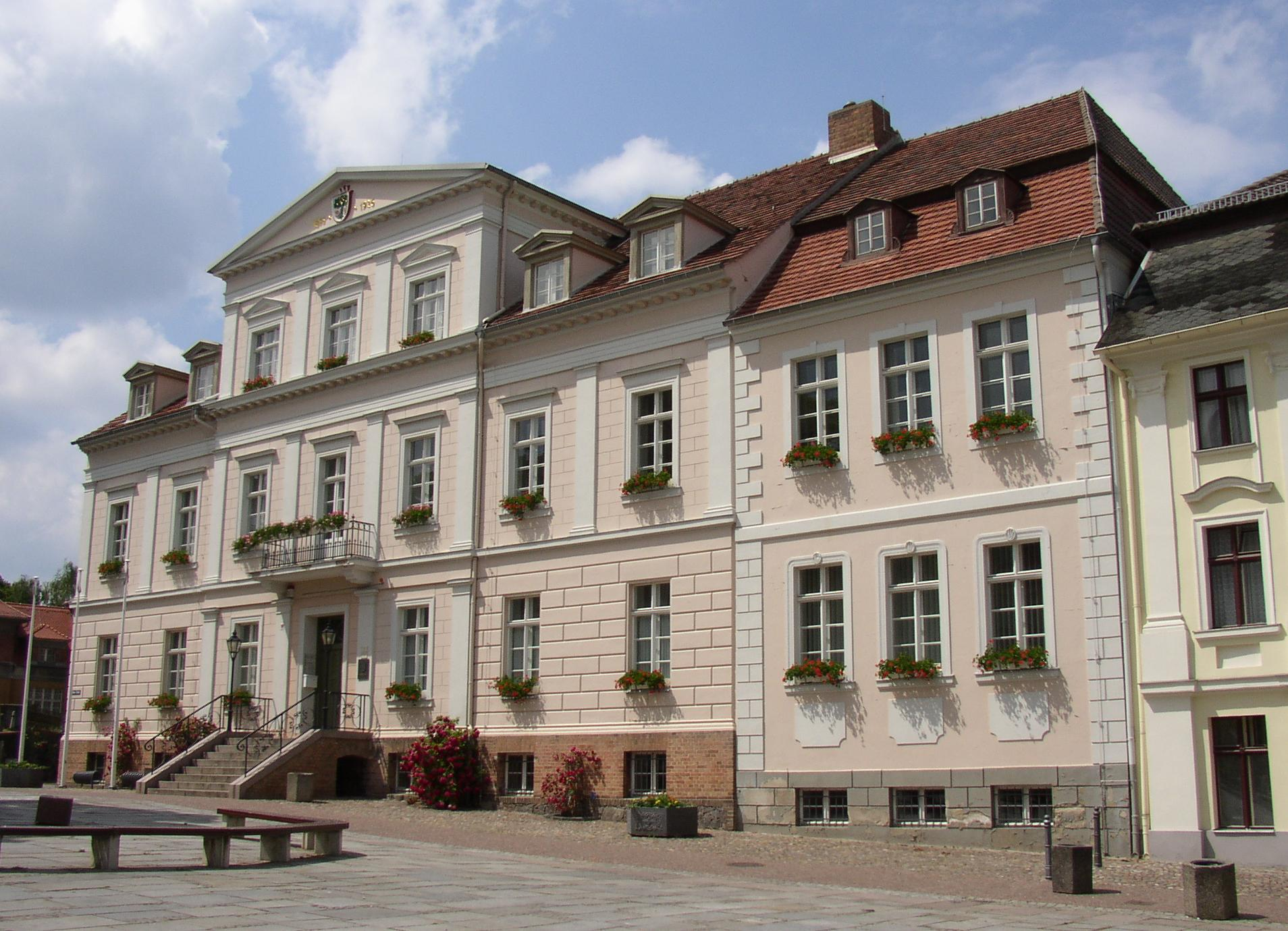 Town hall in Bad Freienwalde in Brandenburg, Germany